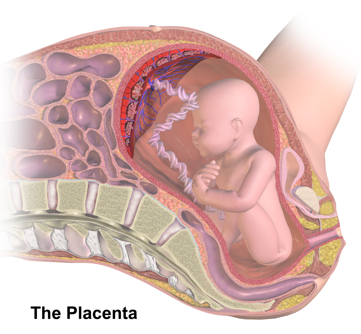 Placenta. See a full animation of this medical topic.